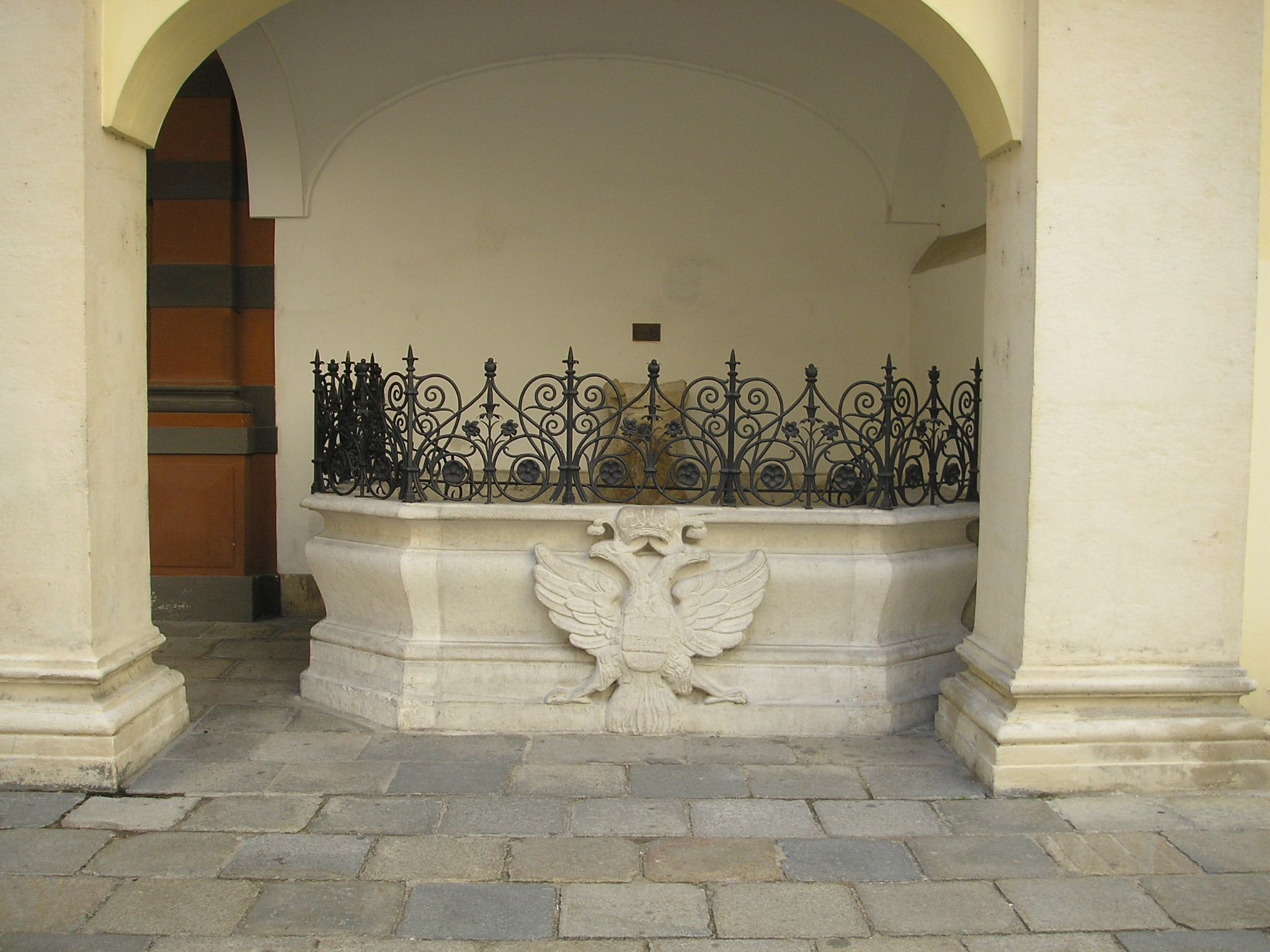 Image of the Schweizerhof of the Hofburg Imperial Palace in Vienna.